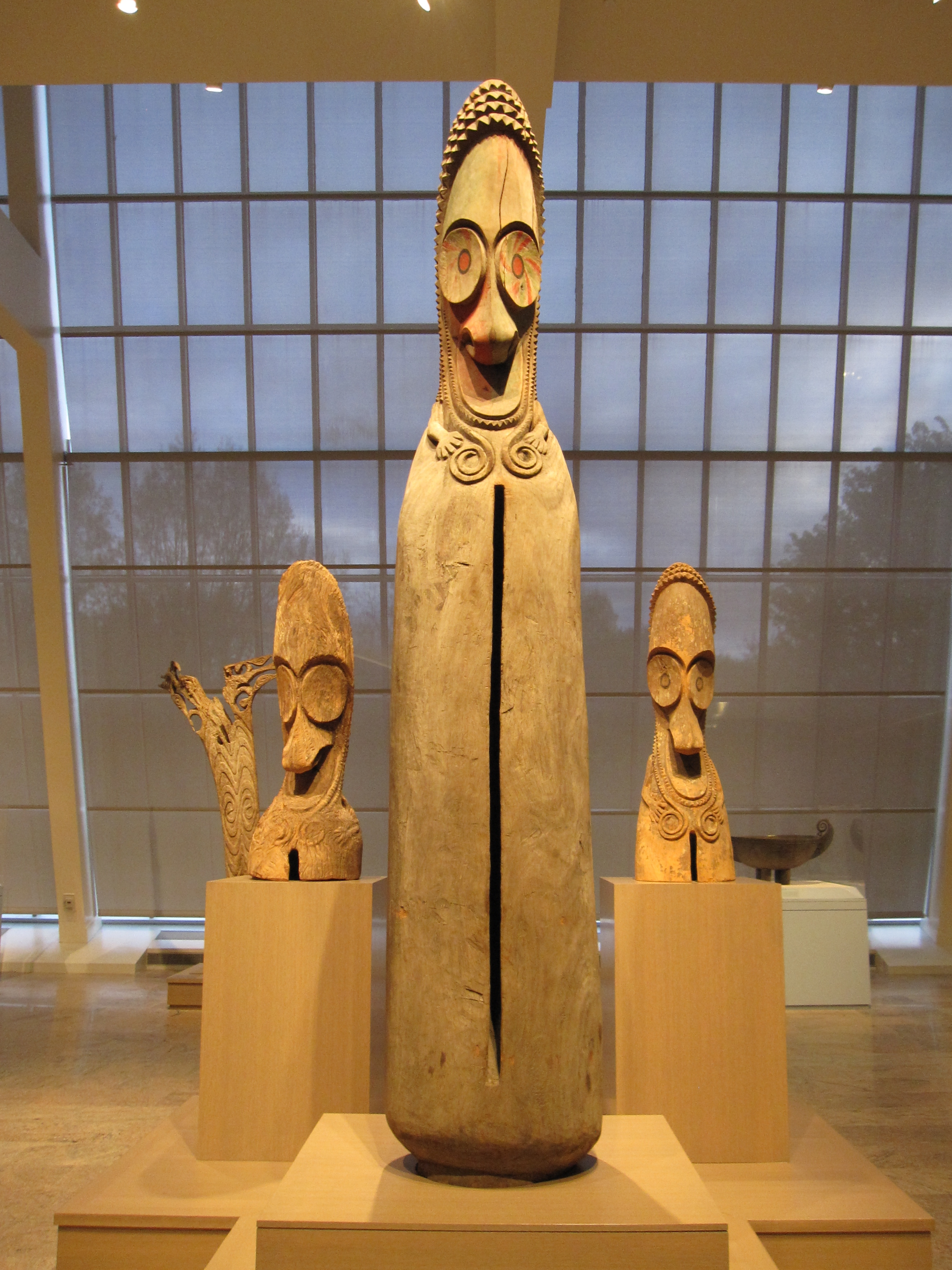 Slit Gong (Atingting Kon). Vanuatu, Ambrym Island, Fanla village. Wood, paint. The spiral motifs painted on the eyes represent metan galgal, the morning star.